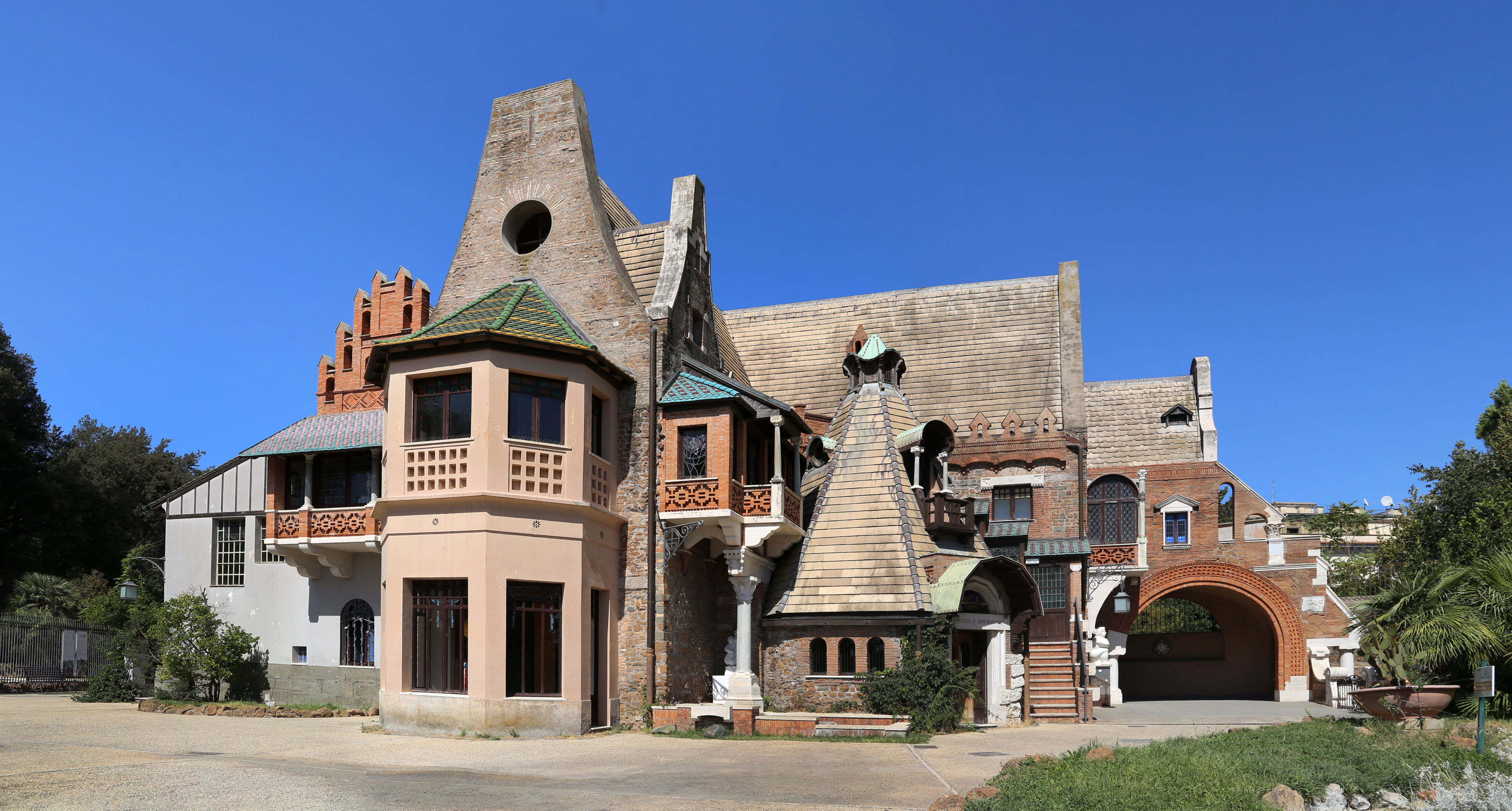 Casina delle Civette (Rome)